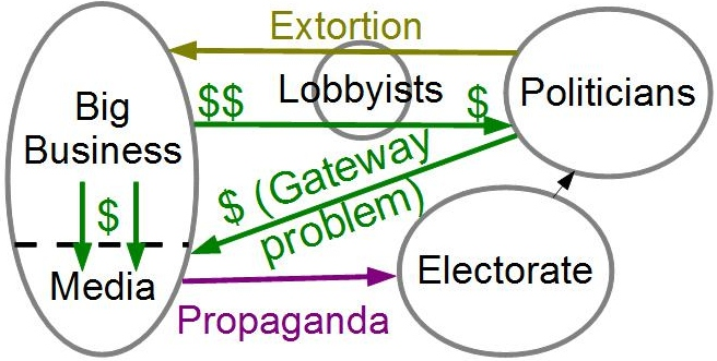 Systems diagram of Lessig's Republic, Lost